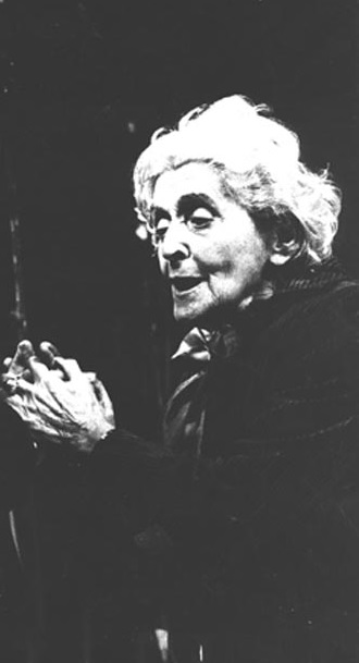 Hedy Crilla- actriz